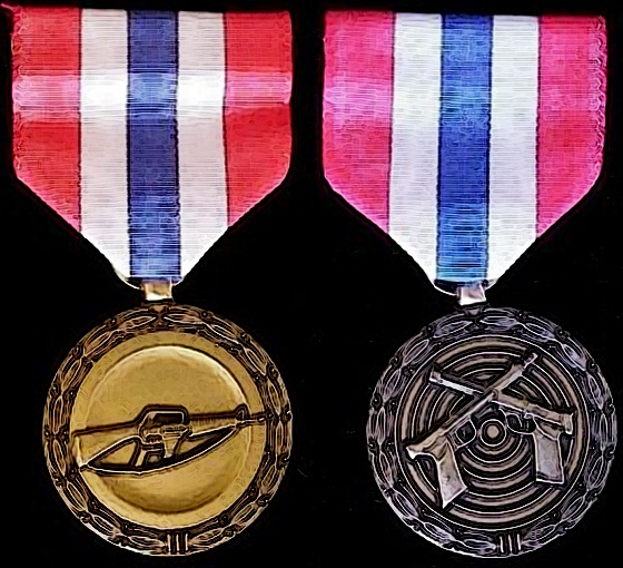 Digital painting of the Alaska Adjutant General's Marksmanship Proficiency Medals